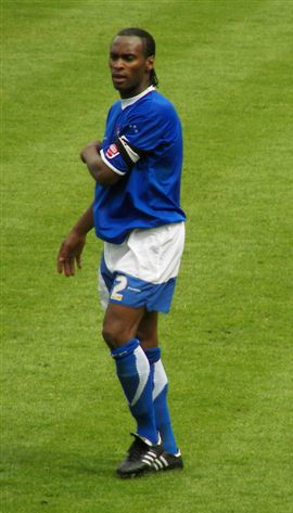 Fabian Wilnis (cropped)